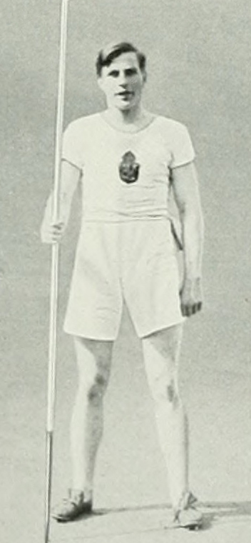 Juho Saaristo at the 1912 Summer Olympics